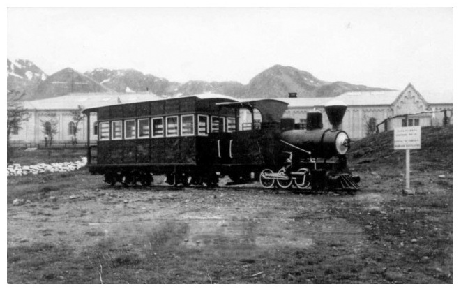 The Tren del Fin del Mundo carrying passengers in Ushuaia, Tierra del Fuego.